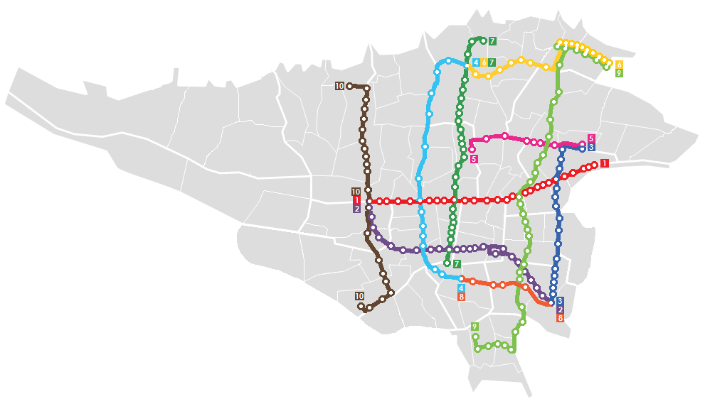 Tehran BRT lines. Created from File:TehranBlank.PNG